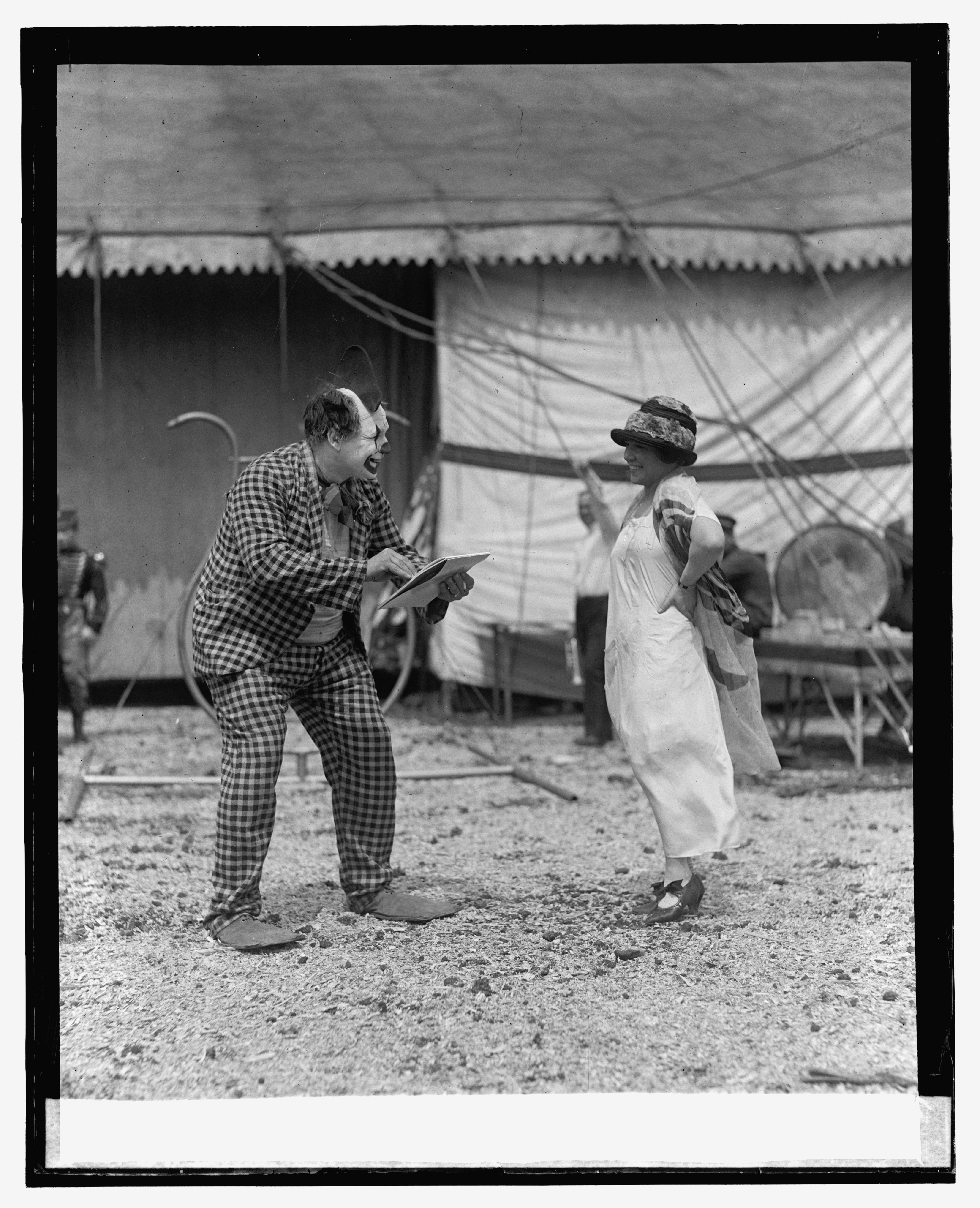 Title: Bill Stieneke & Lillian Leitzel, 5/15/25 Abstract/medium: 1 negative : glass ; 4 x 5 in. or smaller